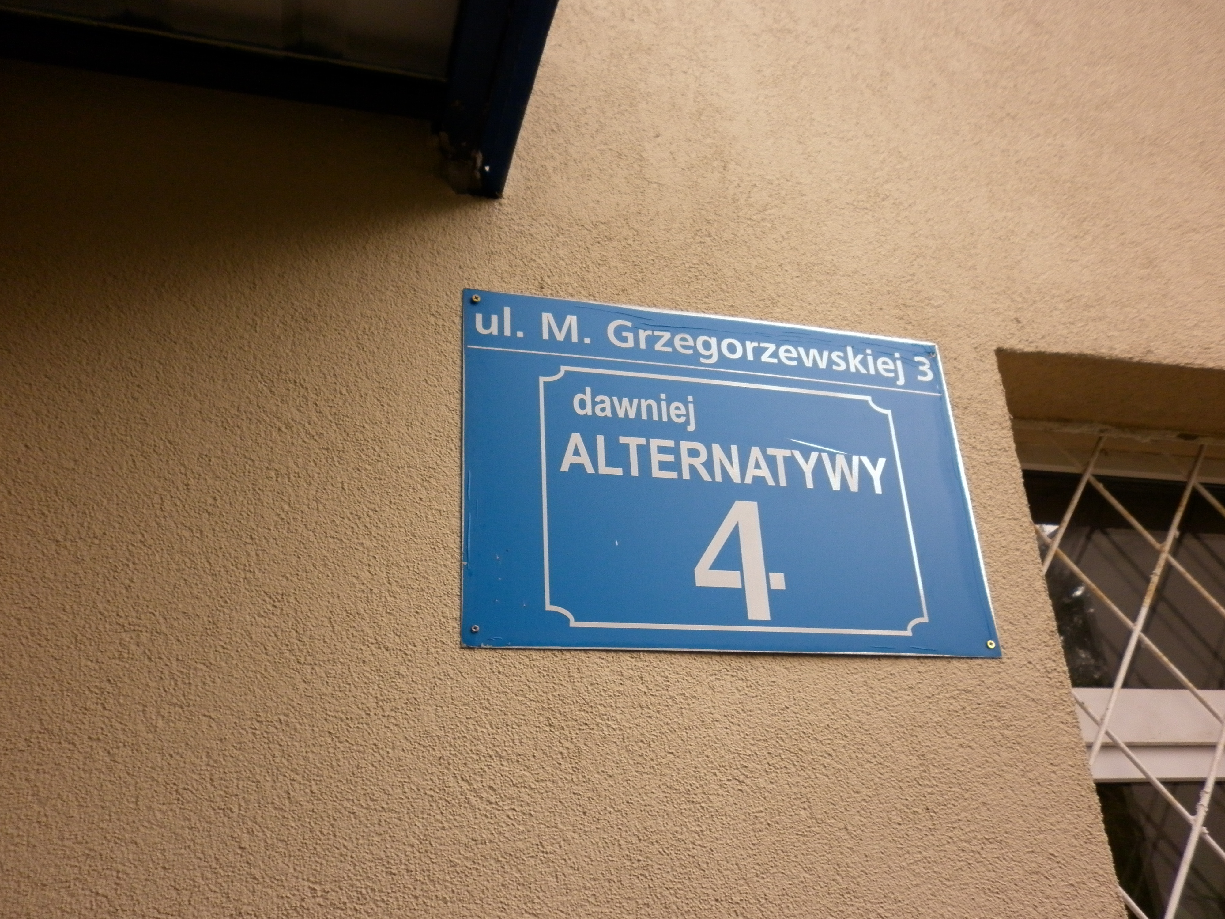 Film Street Alternatywy 4 (table)